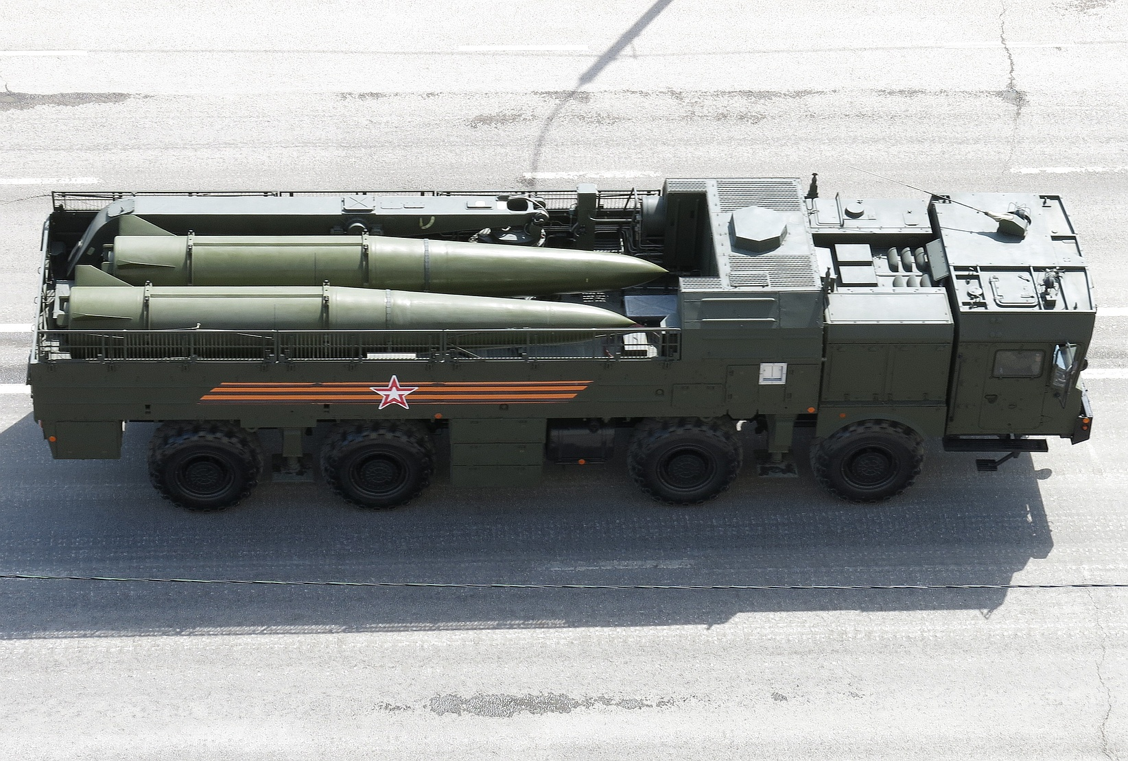 9T250-1 Transport Loader for Iskander-M system, view from above, Victory Day Parade Moscow 2015